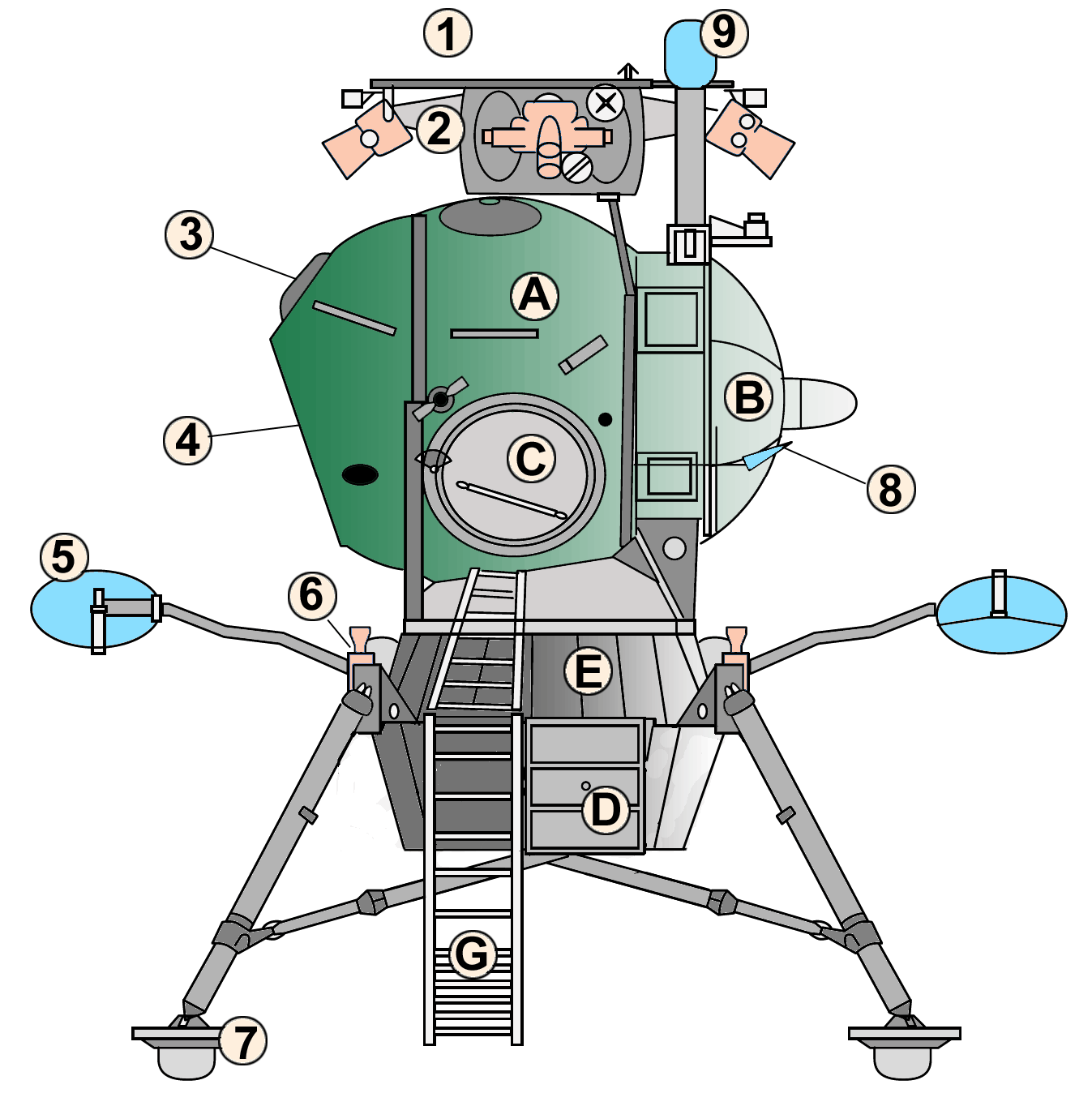 L3 lunar lander. The flat, downward-facing face (left) of the ovoid pressure cabin holds the round viewport (not visible). The Kontakt system passive unit is at cabin top, and two landing radar booms extend at left and right. Nozzles of two solid-fueled hold-down rockets are visible at the tops of the legs, near the bases of the radar booms.